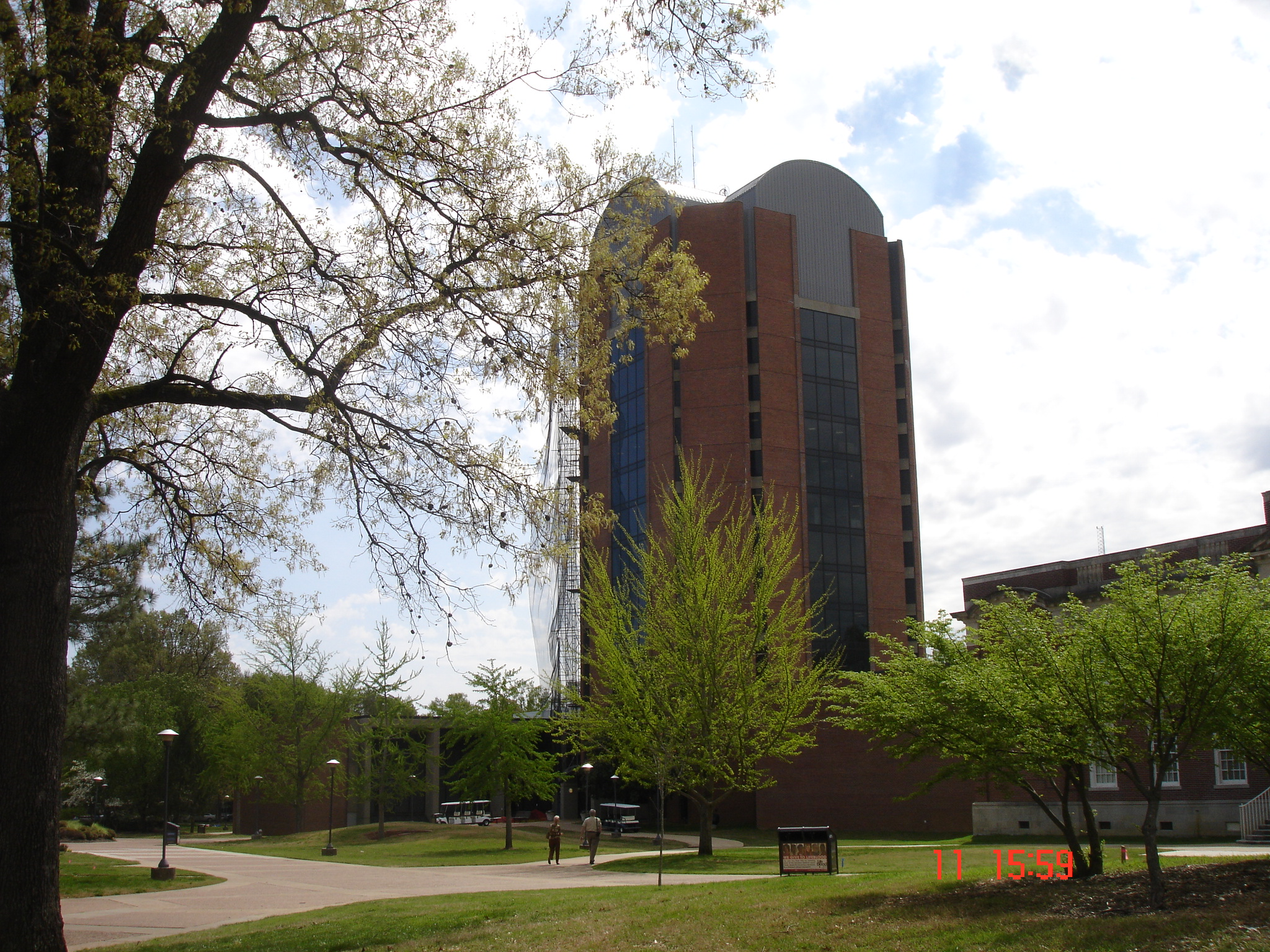 wilder tower